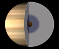 Probable model of the internal structure of Saturn. Core Mainly metallic hydrogen Mainly molecular hydrogen Mainly hydrogen gas